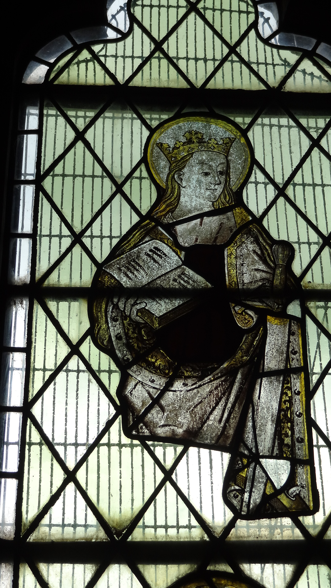 Modwen (Saint) medieval glass now in Whittington church,taken from Burton Abbey